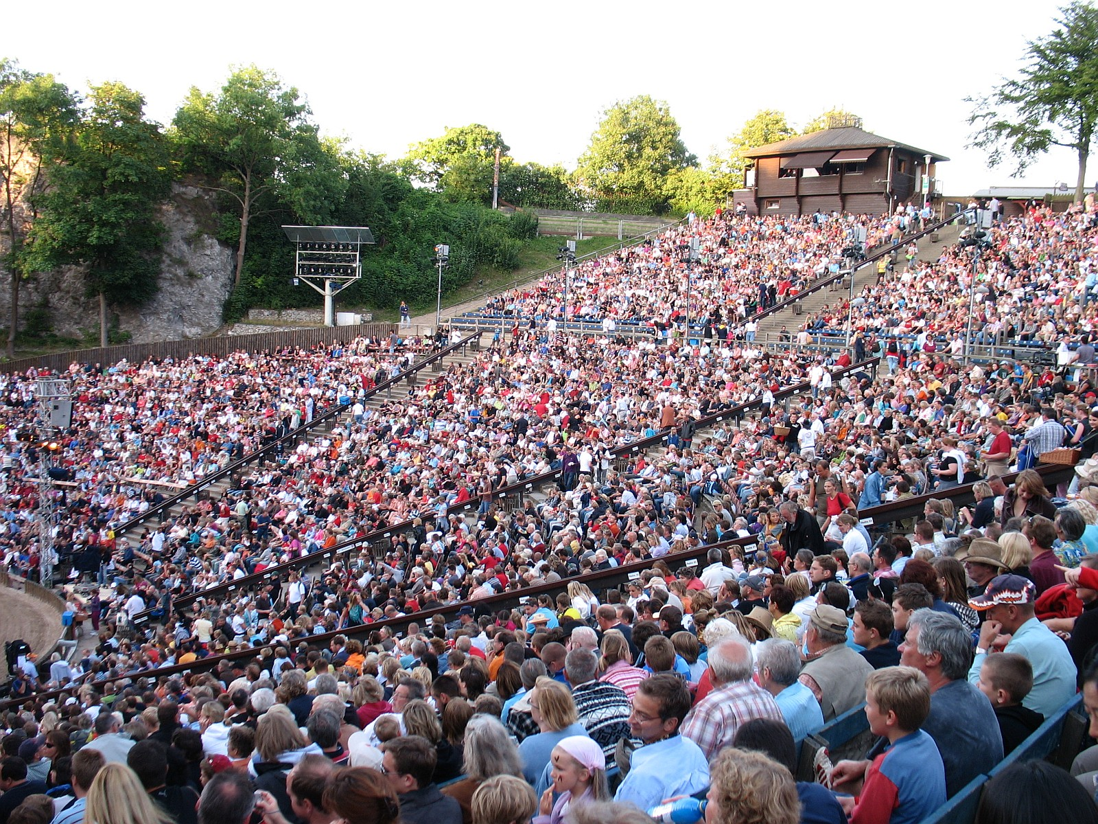 Audience during a perfomance at the Karl-May-Spiele (an open-air theatre) in Bad Segeberg, Germany